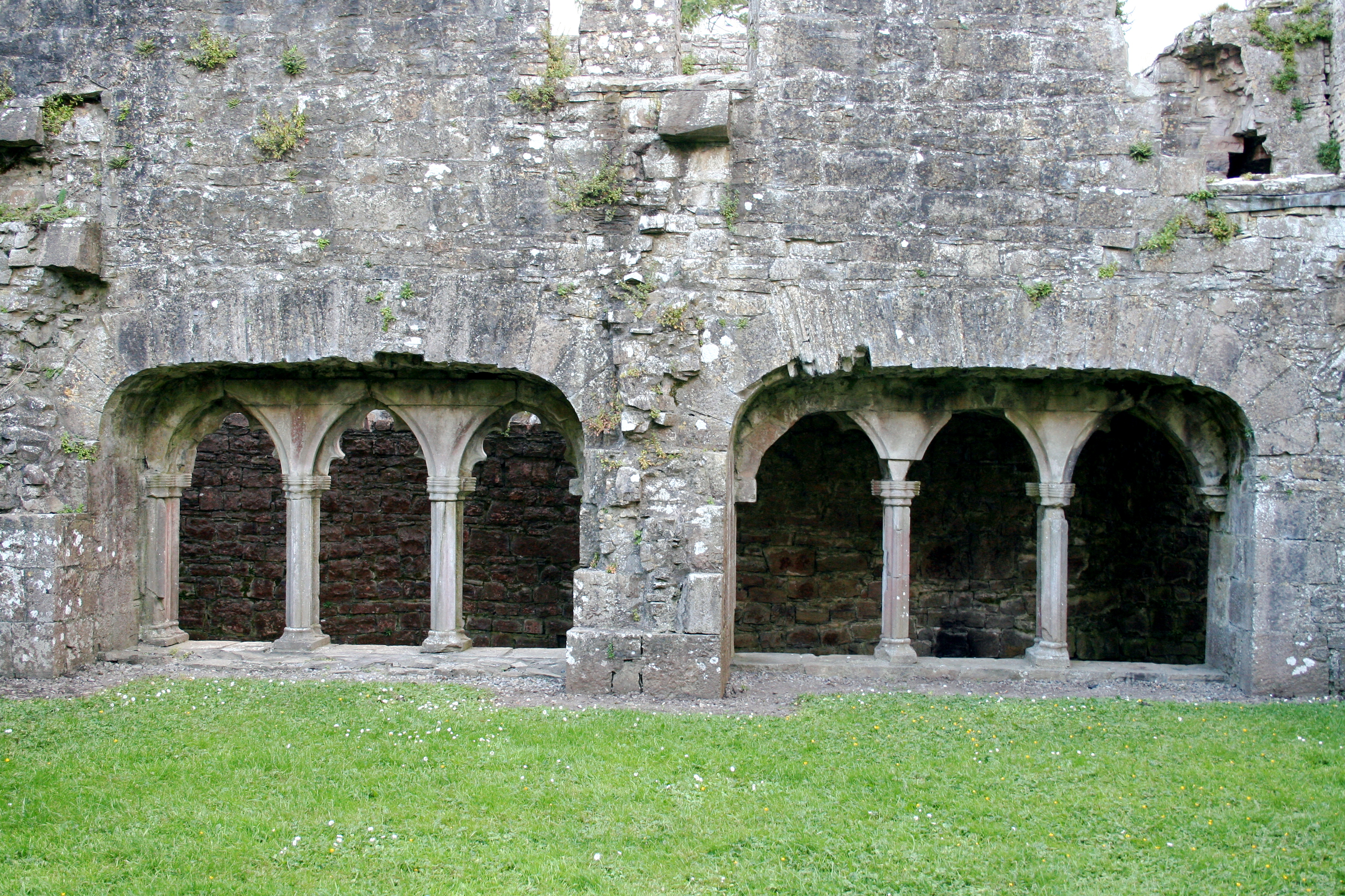 Monasterio de BectiveBective Abbey